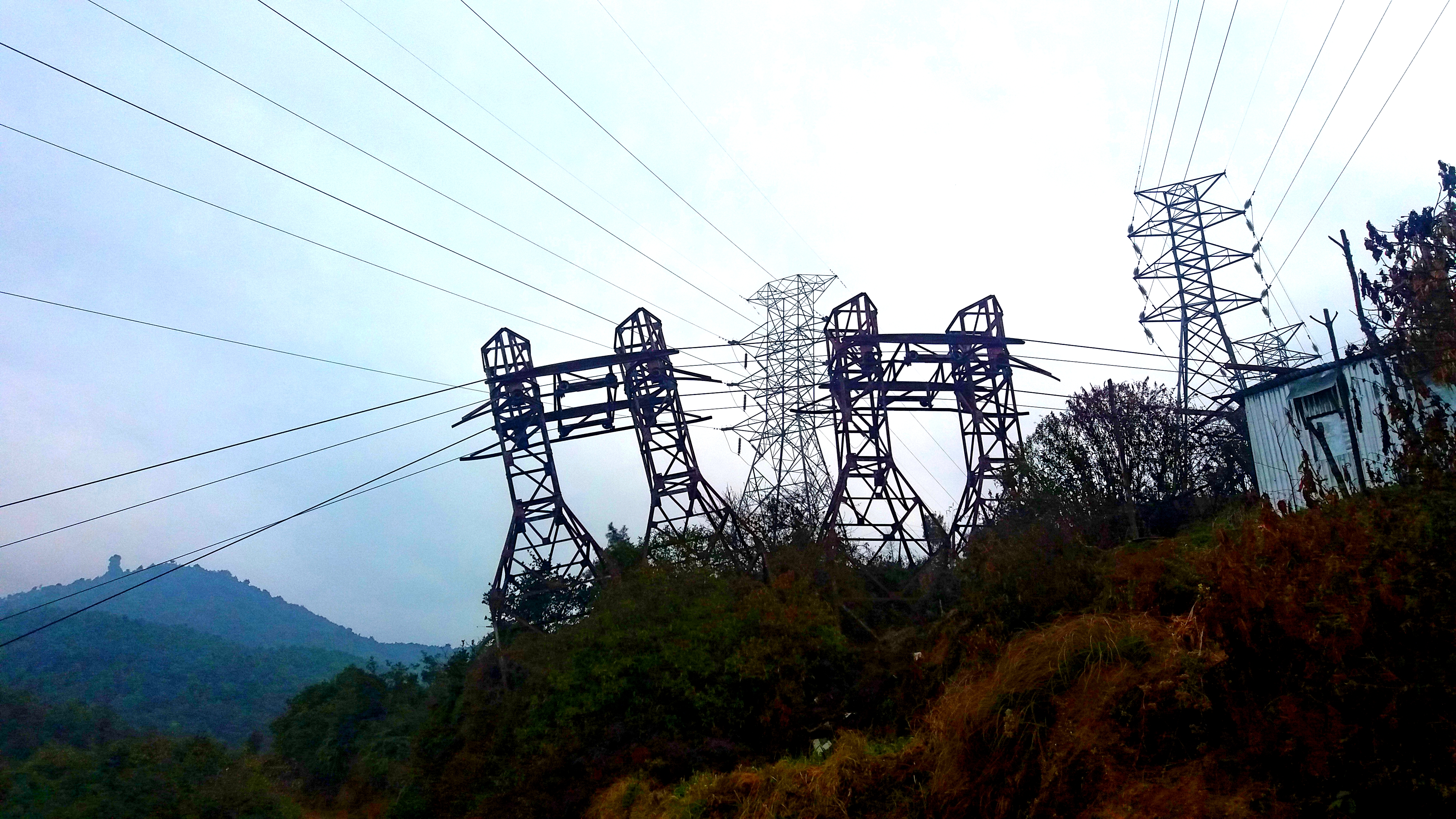 High tension lines and the ropeway poles (the reminiscence of Kathmandu-Hetauda Ropeway), Kathmandu, Nepal.